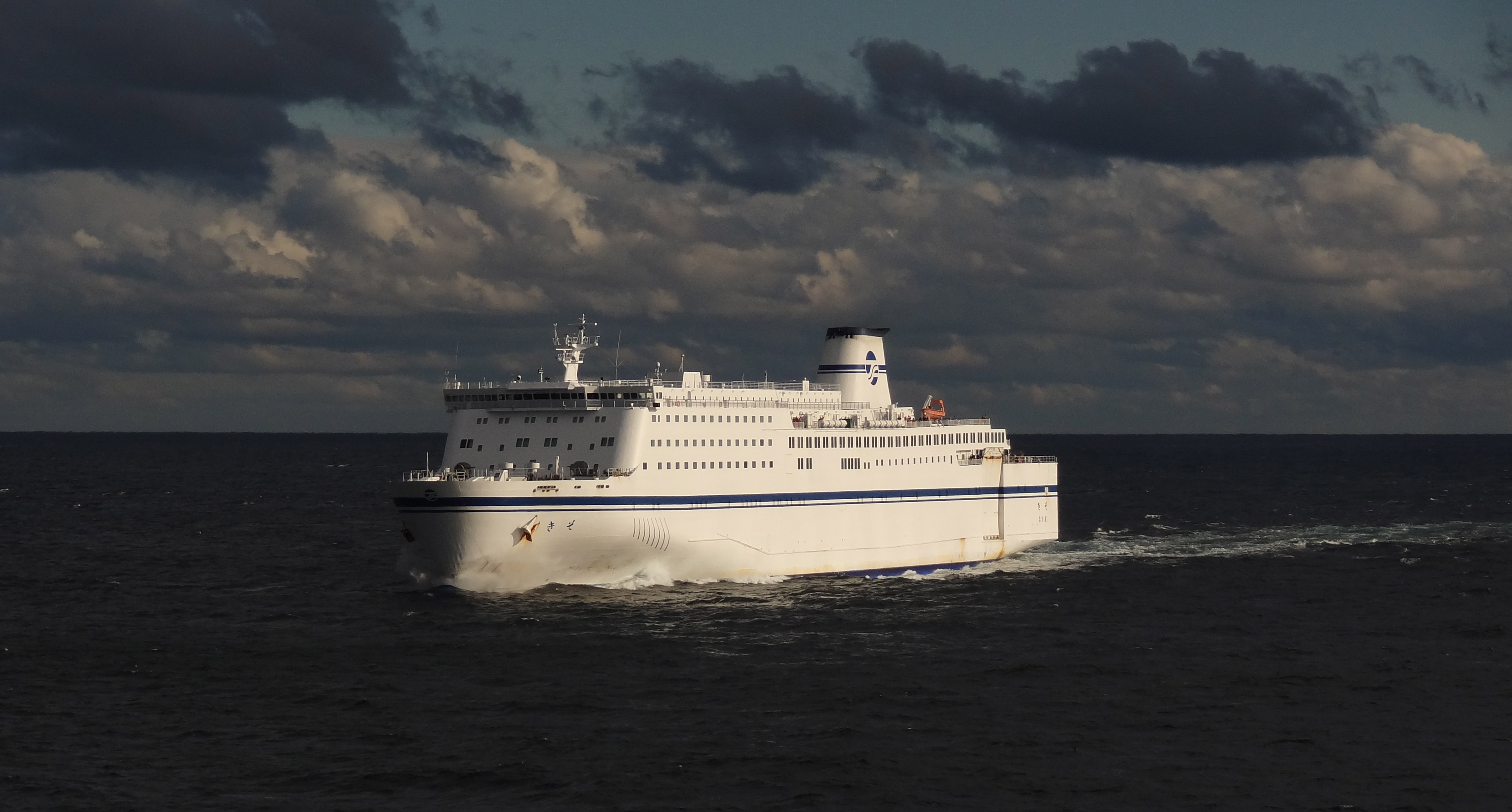 Kiso of Taiheiyo Ferry off the coast of Soma, Fukushima, Japan